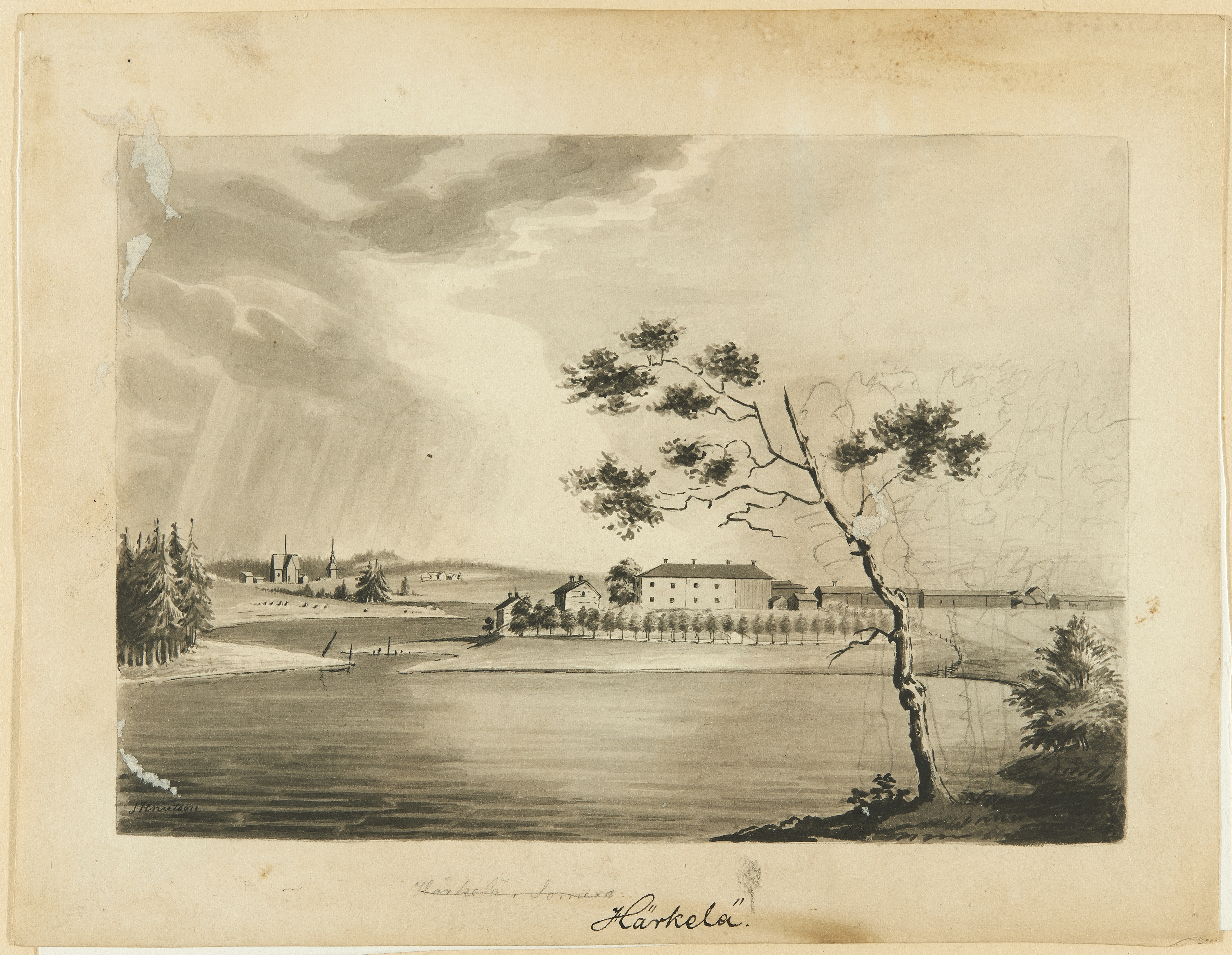 The Härkälä Manor in the 1840's at Somero, Finland. Part of Knutson's series of drawings from Finland. At the background is visible the old church of Somero.